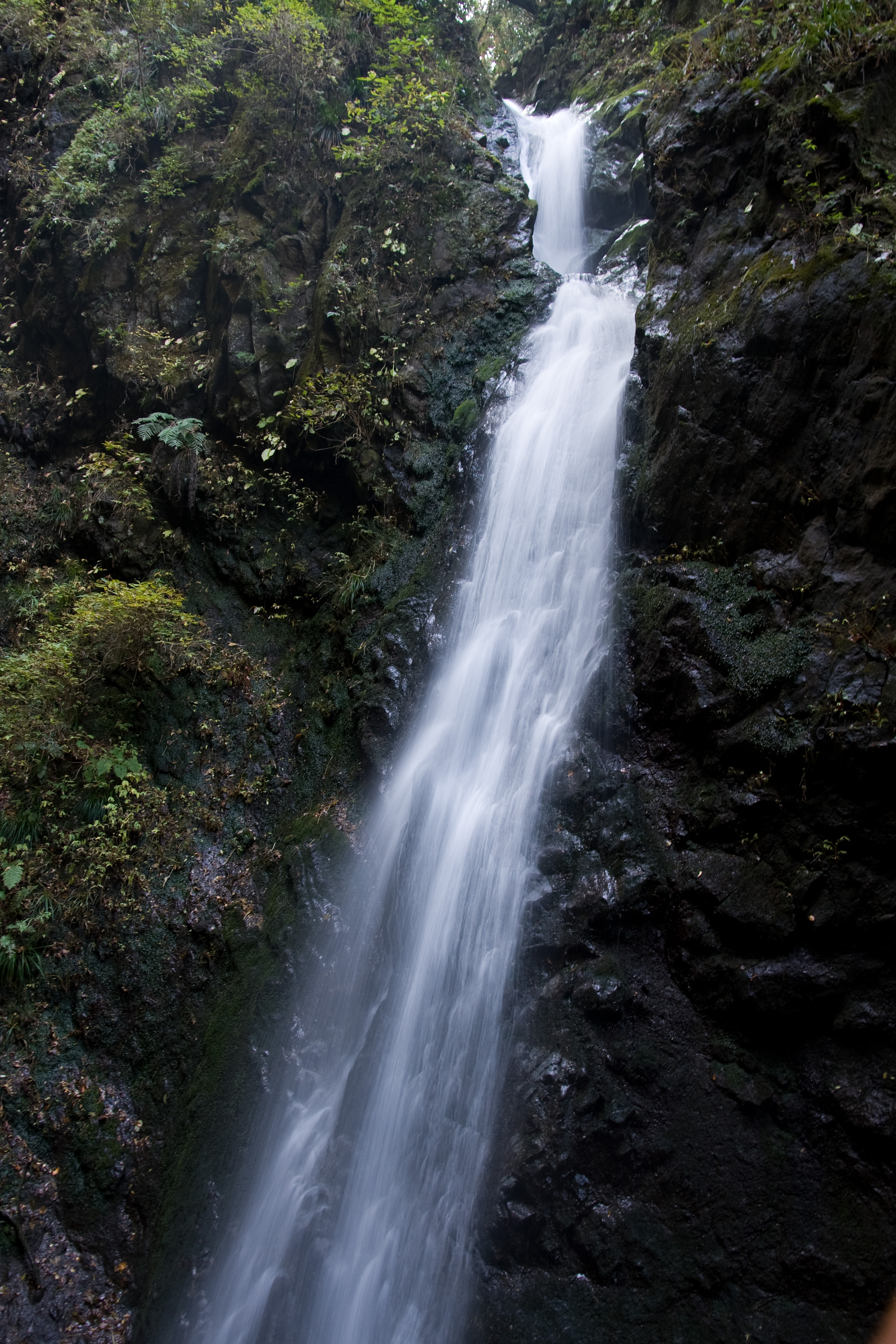 Shiokawa Falls in Aikawa Town, Kanagawa pref., Japan.